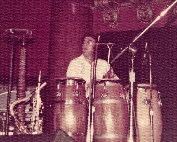 Victor Feldman plays with L.A. Express at the Great American Music Hall in San Francisco, California.